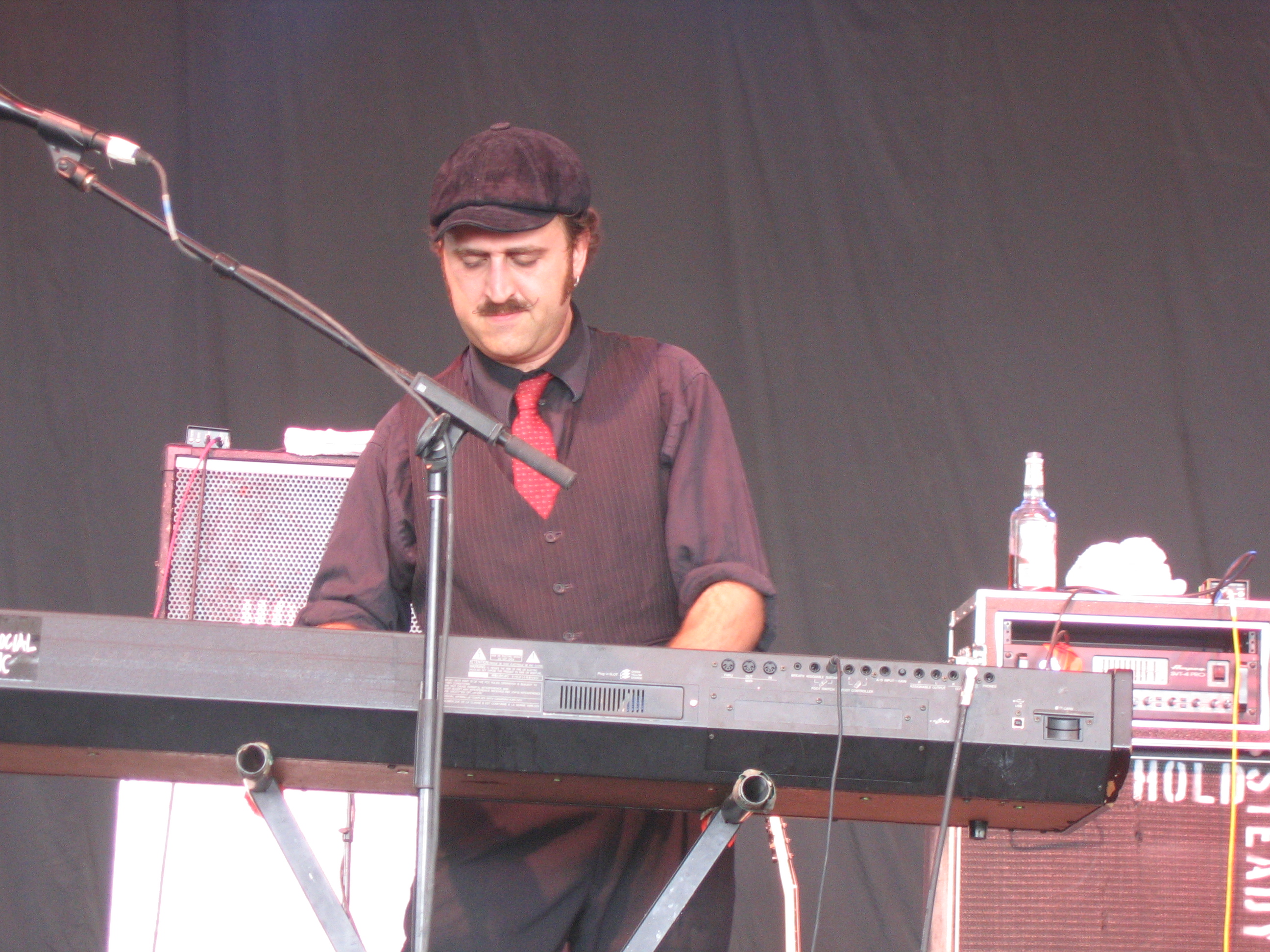 This is my own photo of Franz that I took at a Hold Steady show.